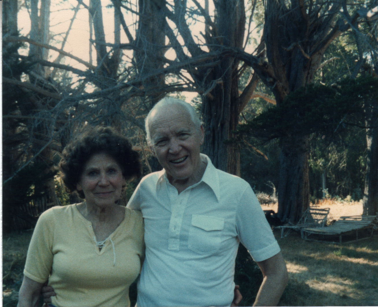 Lorraine and Gunnar Johansen on a visit from Alexander Kaloian, Gualala, California (1985)